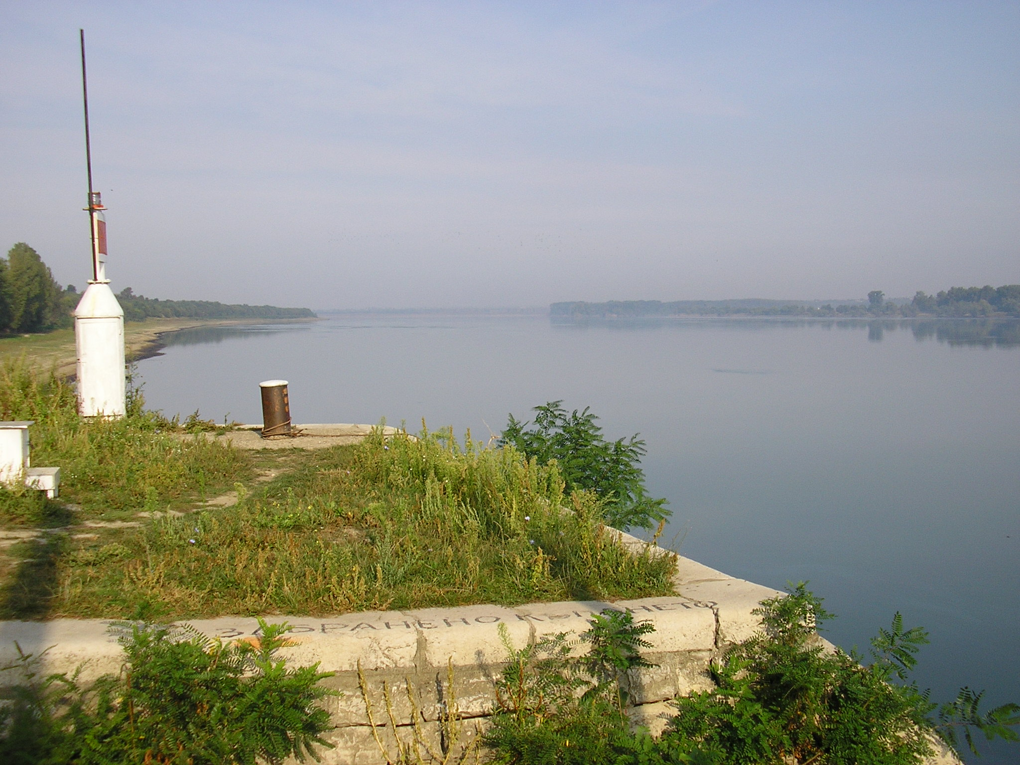 The port of village Novo selo, Vidin district, Bulgaria